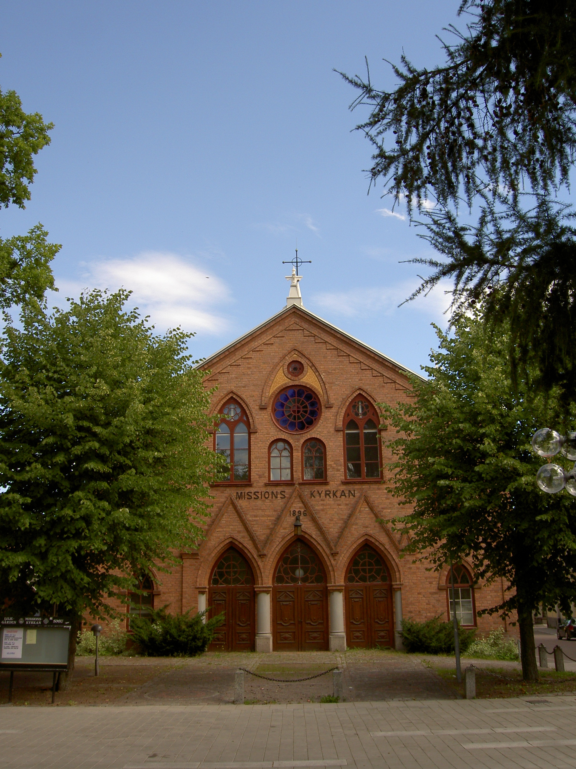 Mission Covenant Church, Borlänge, Sweden